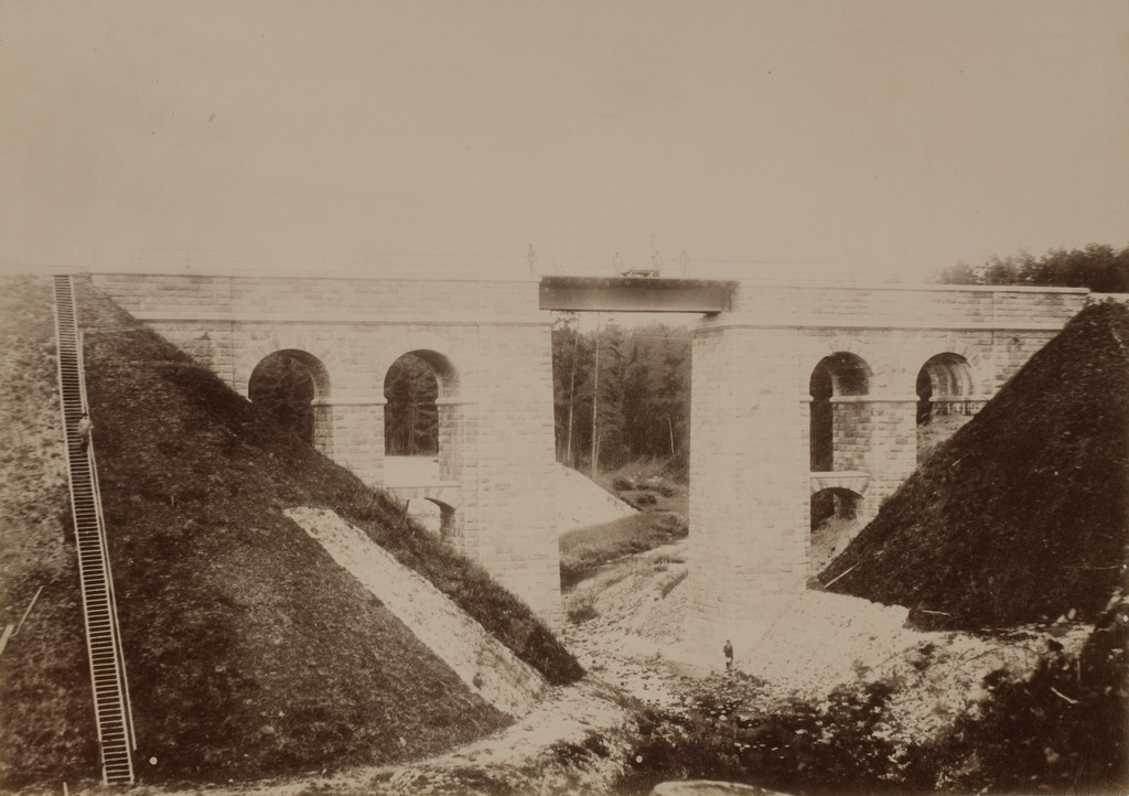 Railway bridge over the Tuderna Creek